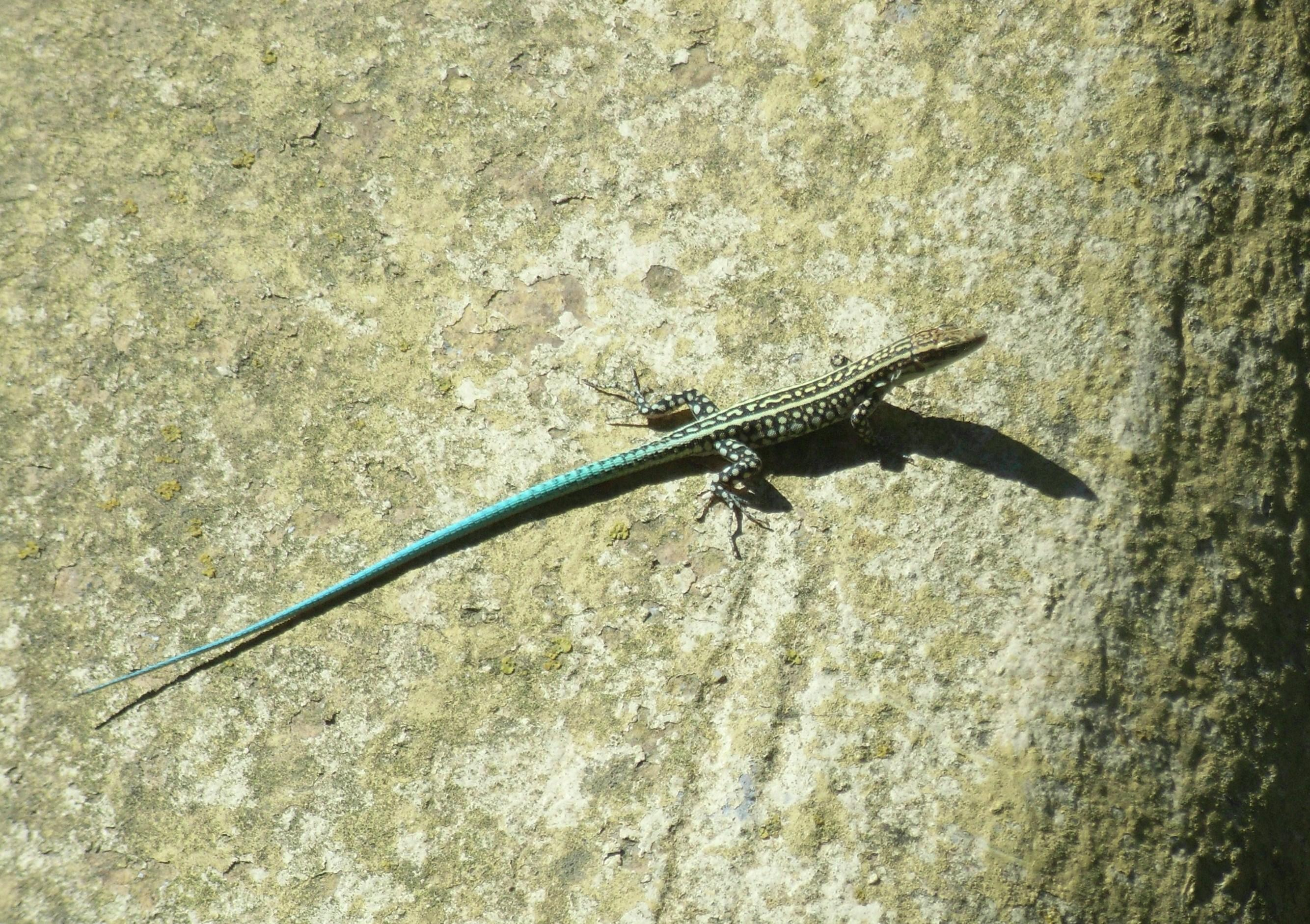 Anatololacerta oertzeni Rodos